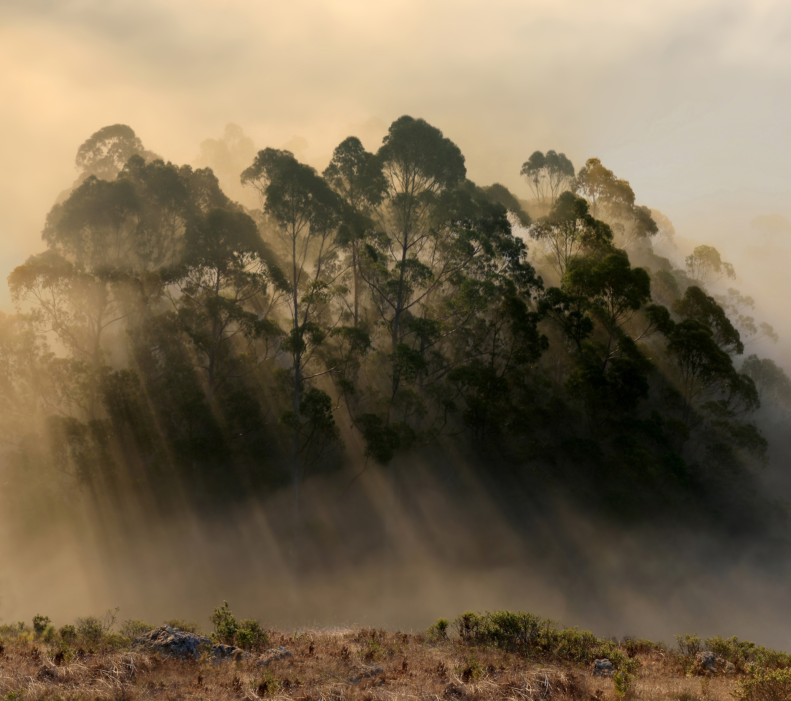 Back-scattering crepuscular rays. The image was sent to Dr. Andrew T. Young,. Here's his description:"... it's unusual to see these shadows so clearly at such an oblique geometry: usually, the crepuscular rays are best seen in forward scattering, and much less well in back-scattering. But here, you're looking almost at right angles to the illuminating rays".